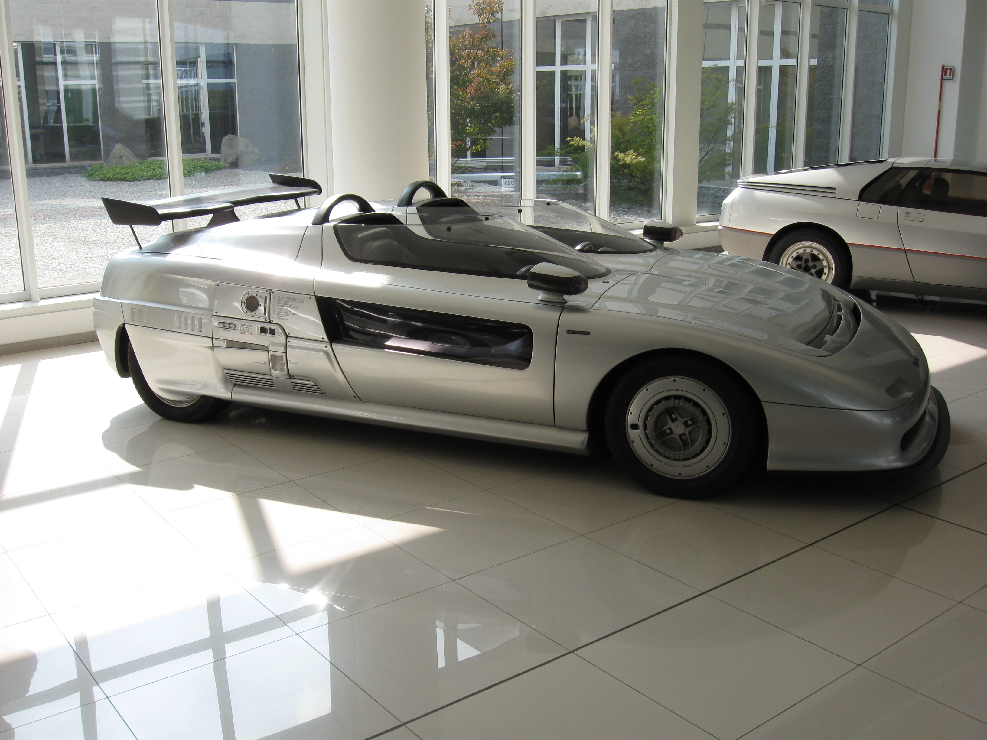 The Audi Aztec concept car designed by Giorgetto Giugiaro and produced by Italdesign